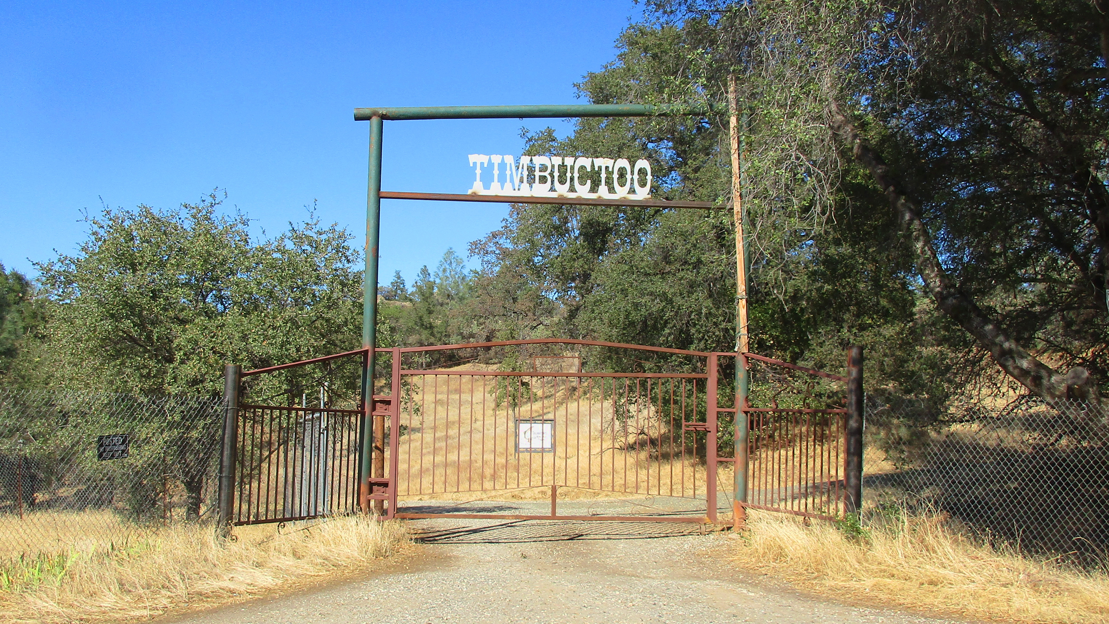 Timbuctoo